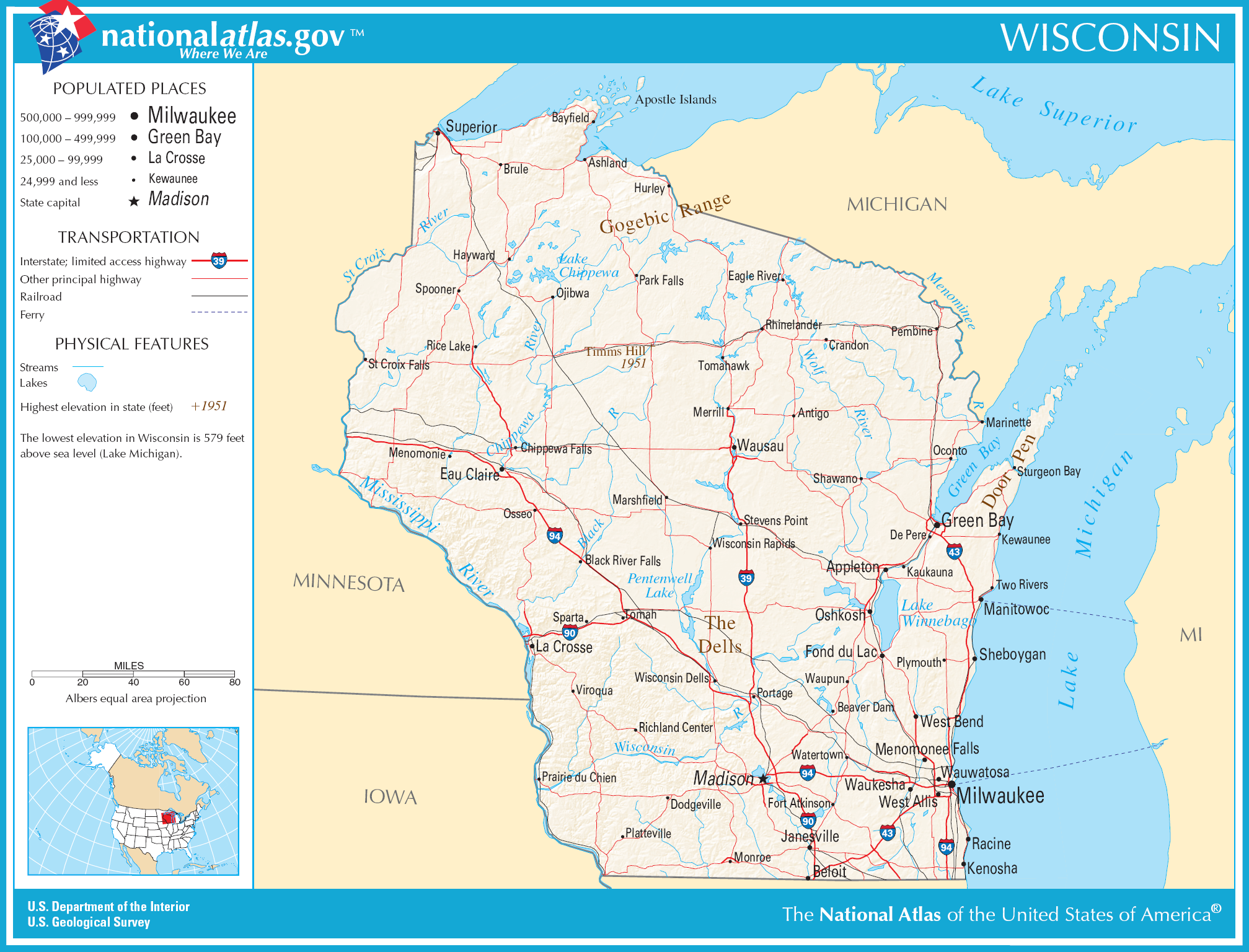 Map of Wisconsin.